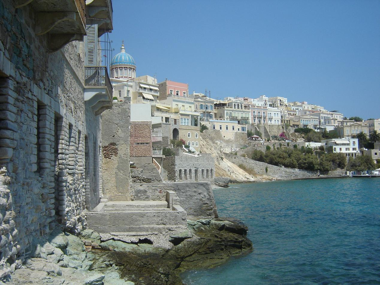 Ermoupoli, Syros island, Greece.